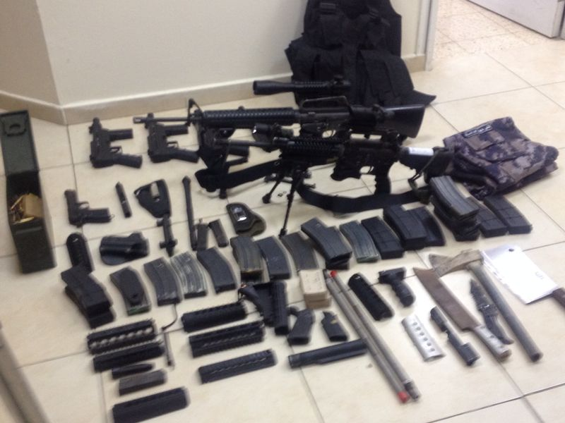 On the night of June 16th, 2014, IDF forces searched the city of Nablus as a part of Operation Brother’s Keeper -- the operation to find the three kidnapped Israeli teens. The forces found hundreds of concealed weapons and detained more than 40 terrorist suspects. These are the weapons they found in the possession of Palestinians.